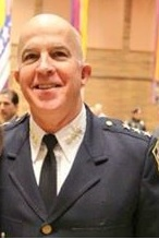 Depicted person: James P. O'Neill – American police officer